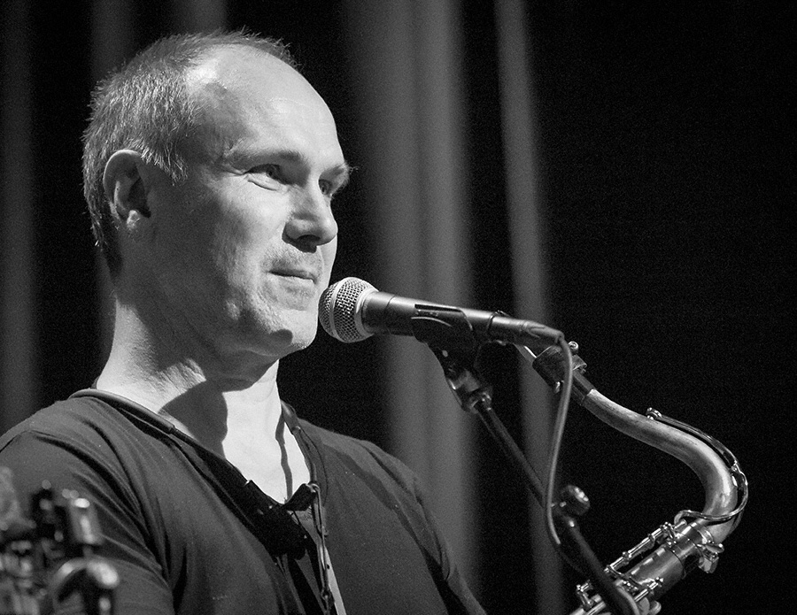 Bendik Hofseth performs with Mike Mainieri at Cosmopolite Scene in on 04 May 2016. Backed by Jazzcode and later in the concert by Cosmopolitans. The musicians had earlier that week recorded three albums in a studio in Oslo.Lineup:Mike Mainieri (vibraphone)Bendik Hofseth (tenor saxophone)Jørn Øien (piano)Bruno Raberg (double bass)Sidiki Camara (percussion)Carl Størmer (drums)Jacob Young (guitar)Helge Iberg (piano)Paolo Vinaccia (percussion)